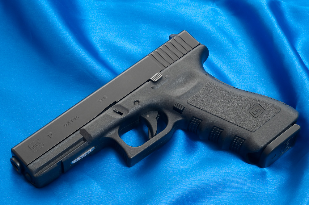 An early "third generation" Glock 17 (full-size pistol chambered for 9x19mm Parabellum), identified by the addition of thumb rests, an accessory rail, finger grooves on the front strap of the pistol grip and a single cross pin above the trigger.